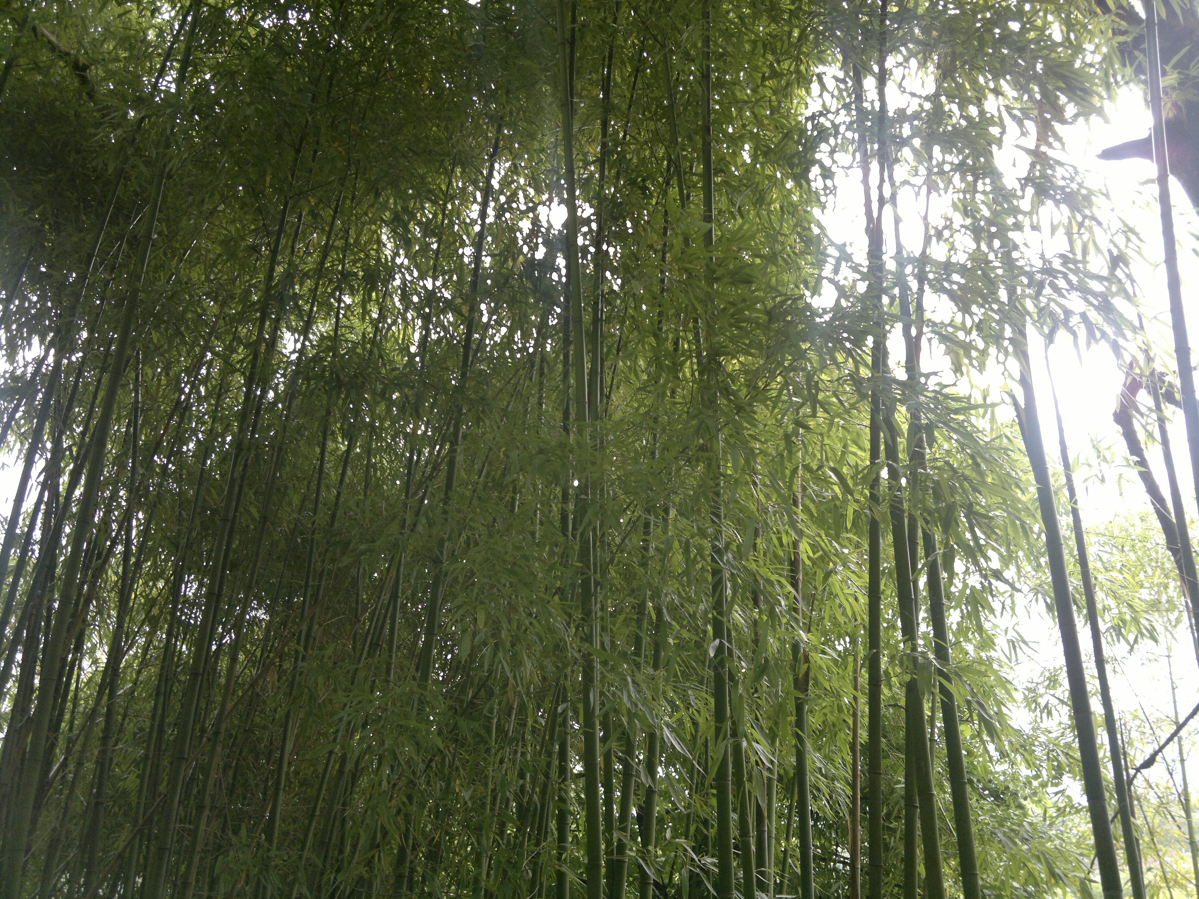 bamboo bambou bambuseae phyllostachys VAN_DEN_HENDE_ALAIN CC-BY-SA-4_0 _210520142038 bamboo stalk green foliage yellow stems garden ornamental plant green forest